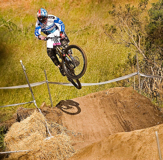 Tara Llanes jumping doubles at 2005 Sea Otter Classic race